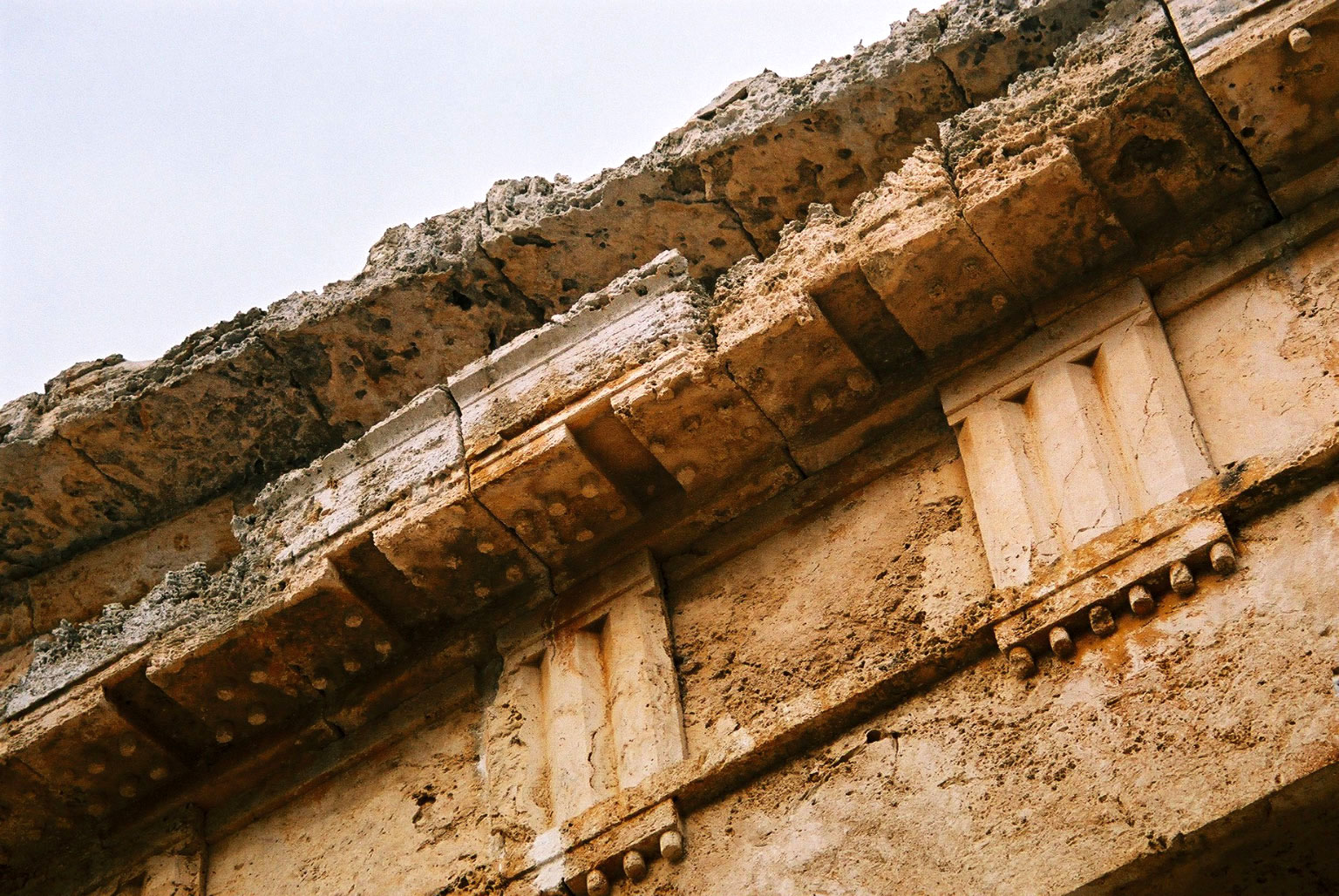 Temple of Segesta Frieze with triglyphs and metopes